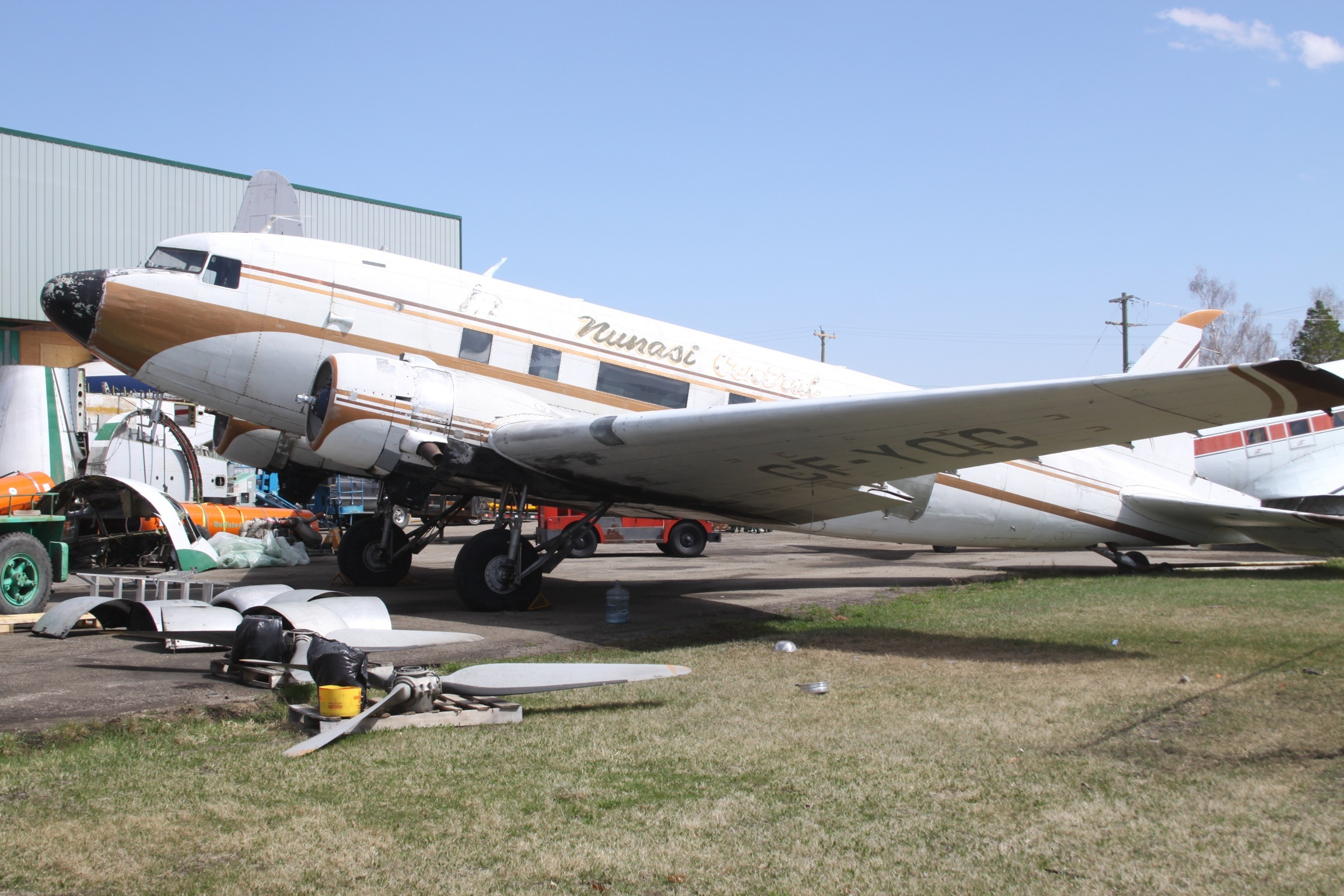 At Red Deer Regional Airport